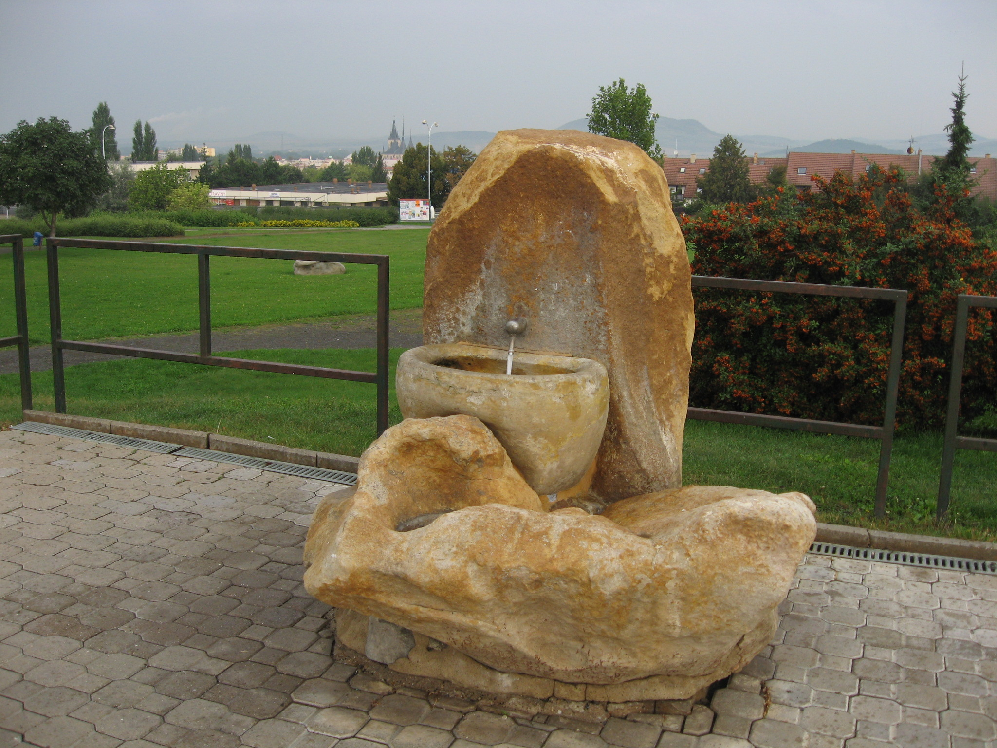 Mineral spring "Luna" in Louny, Czech Republic